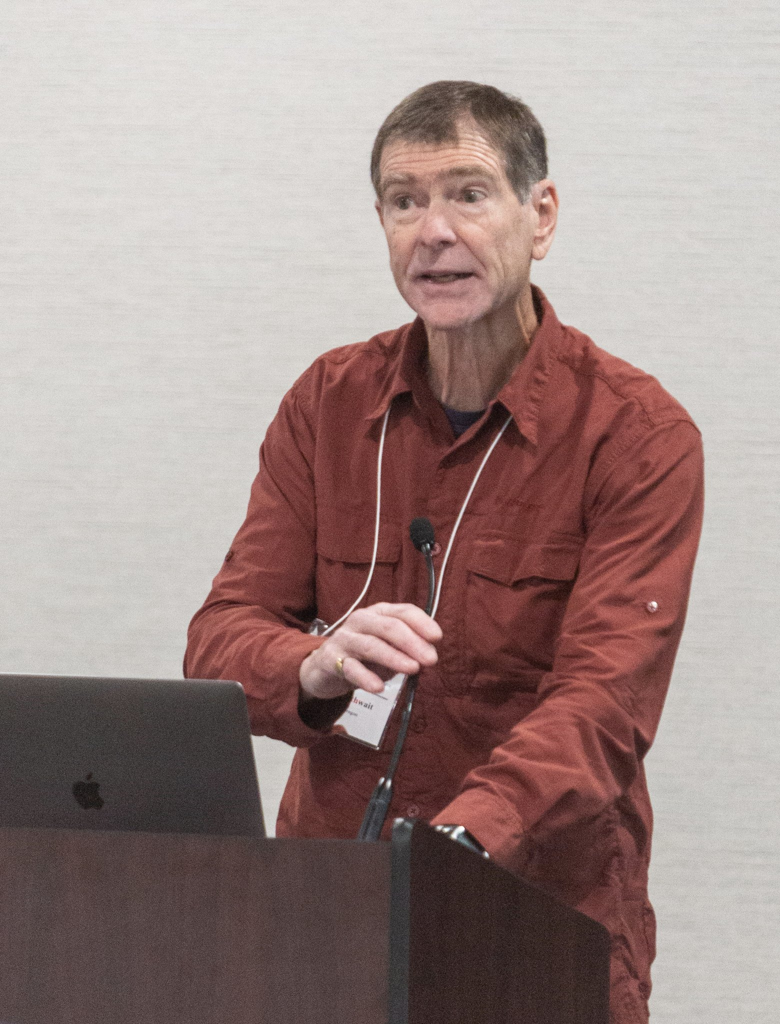 John Postlethwait, presenting "The Transcriptomic Disease Signature: A New Screen for Therapeutics" at the 2018 Comparative Medicine Resource Director's Meeting.